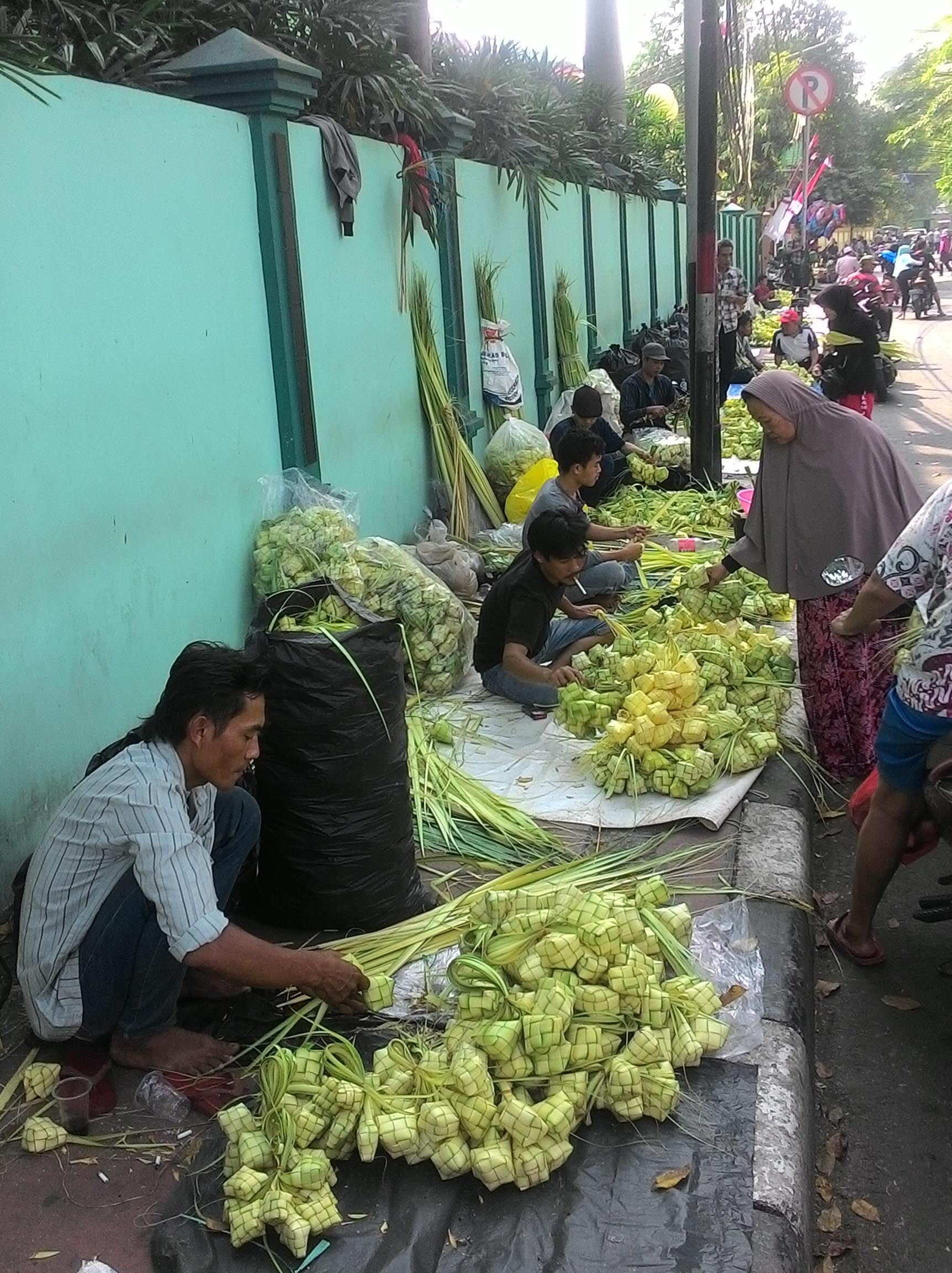 People weaving young coconut fronds (Indonesian: janur) into ketupat pouch to be sold prior of Lebaran haji (Eid al-Adha) in Rawasari Market, Central Jakarta, Indonesia. This ketupat puch will be filled with rice and boiled to make ketupat rice dumpling, an essential food to be consumed by Indonesian Muslims during Lebaran (Eid al-Fitr and Eid al-Adha) celebrations.